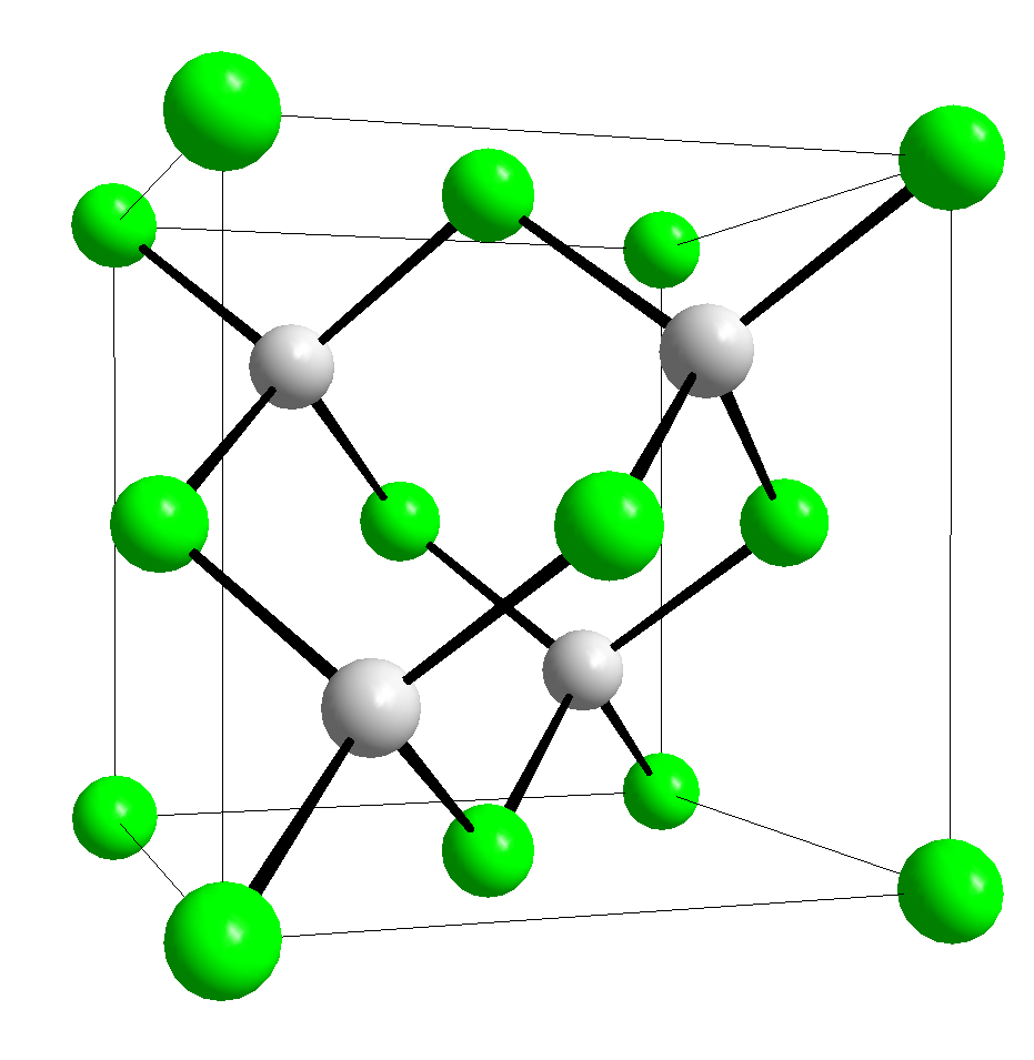 Aluminium antimonide, unit cell